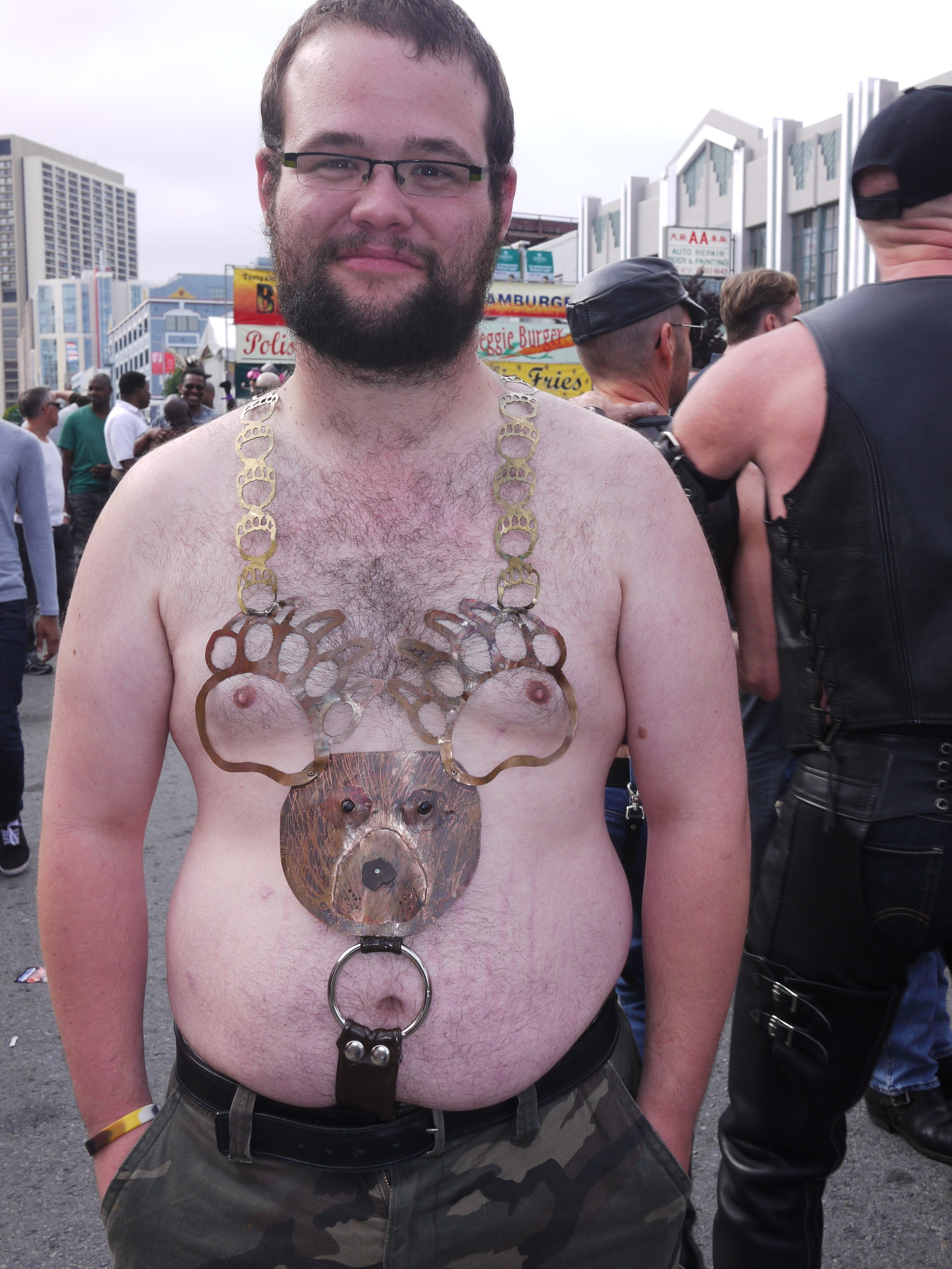 A man dressed as a bear at Dore Alley Fair 2011